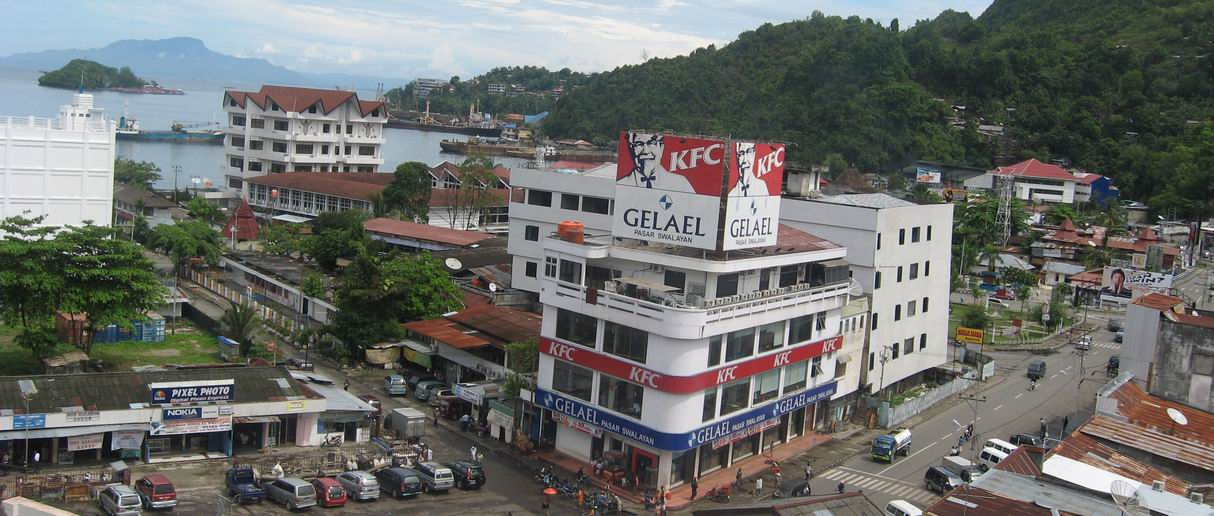 Downtown Jayapura district, Papua